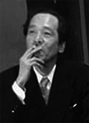 Tatsuo Nagai (1904–90)